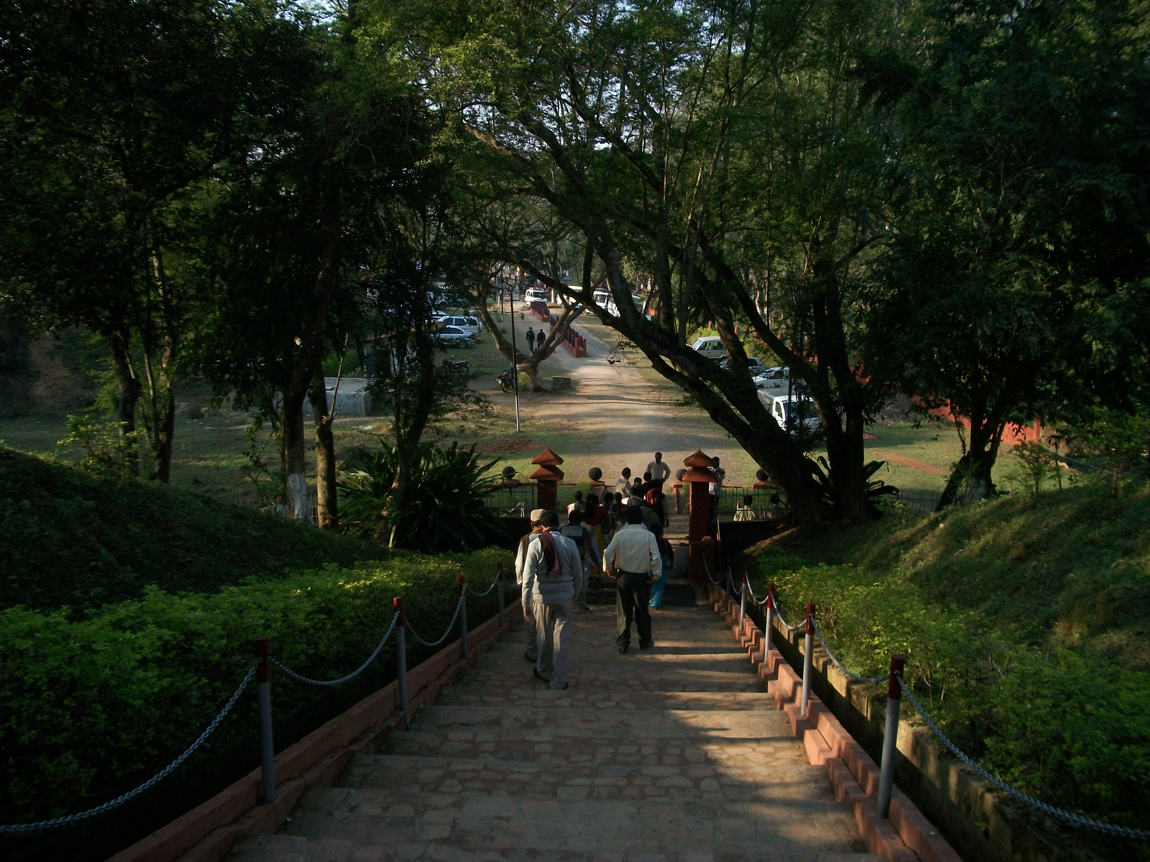 Mausoleum of Ahom Royals of Assam located at Charaideo in Sivasagar district